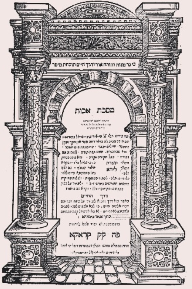 Title page of Crakow edition of Derech Chaim, book on Jewish ethics by Rabbi Judah Lowe